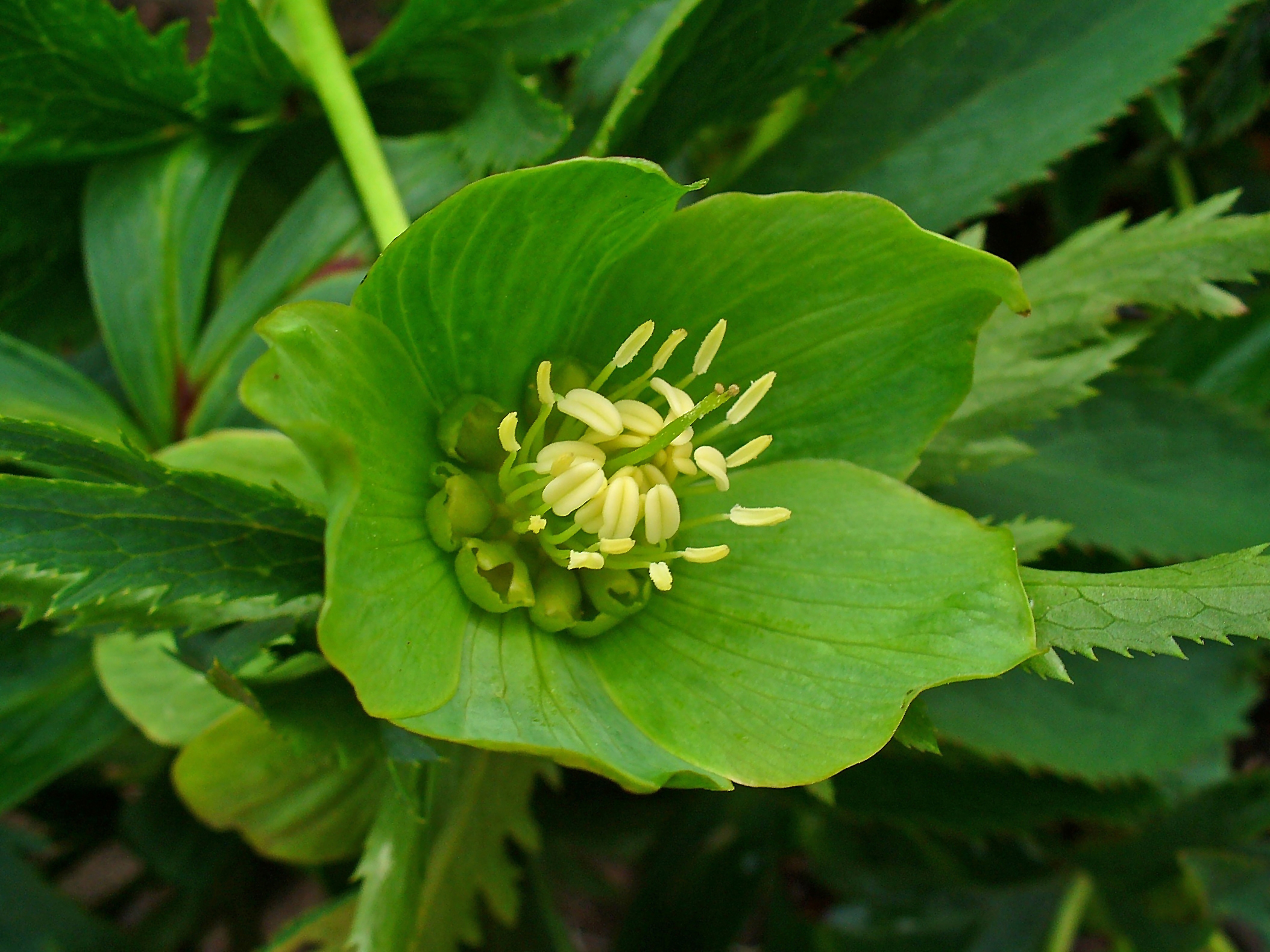 Helleborus viridis, Ranunculaceae, Green Hellebore, flower. The dried rootstock is used in homeopathy as remedy: Helleborus viridis (Hell-v.)